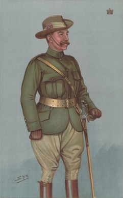 Caricature of Lord Chesham. Caption read "Imperial Yeomanry".